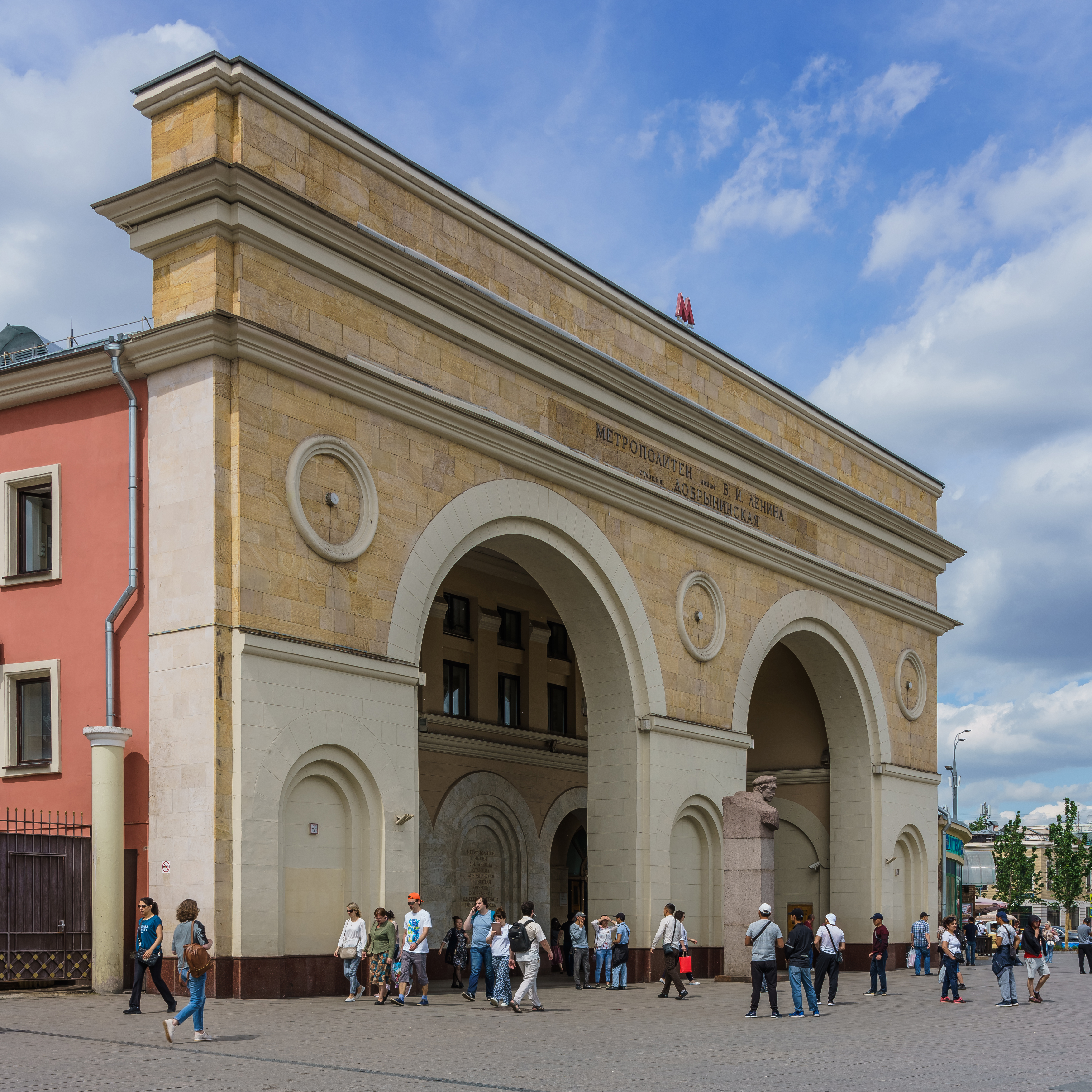 Entrance building of Dobryninskaya metro station in Moscow, Russia